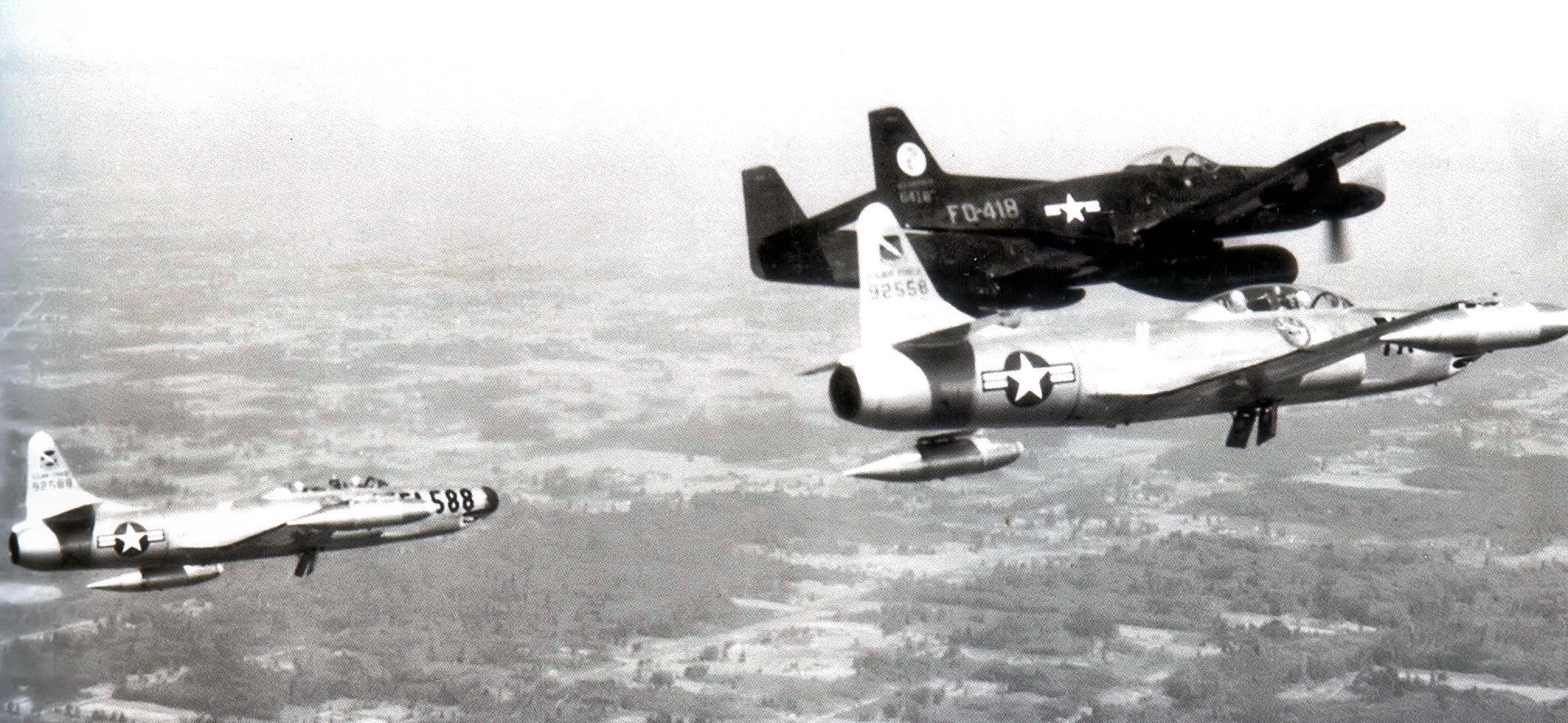 Two F-94 Starfires and a F-82 Twin Mustang, 325th Fighter Group. Aircraft identified as Lockheed F-94A-5-LO 49-2588 and 49-2558; North American F-82F Twin Mustang 46-418. 46-418 was scrapped at Brooks AFB, Texas in 1951 with only 550 hours total time.